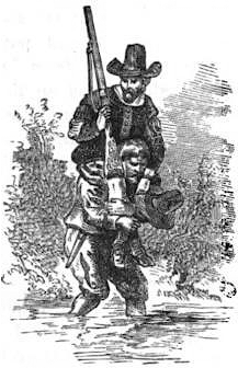 John Winthrop fording the Mystic River, near Boston